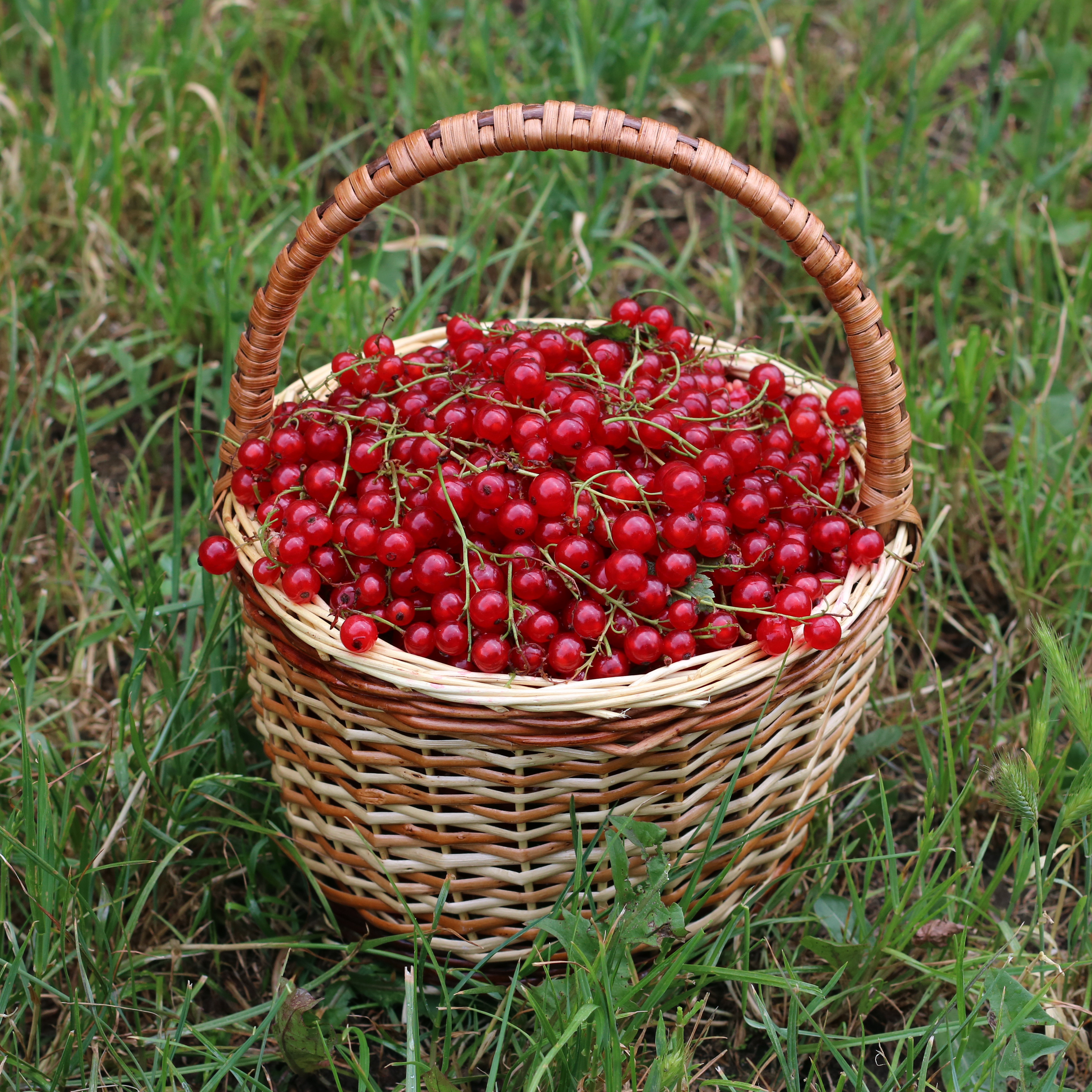 Redcurrant berries (Ribes rubrum) in a basket. Ukraine, Vinnytsia Oblast